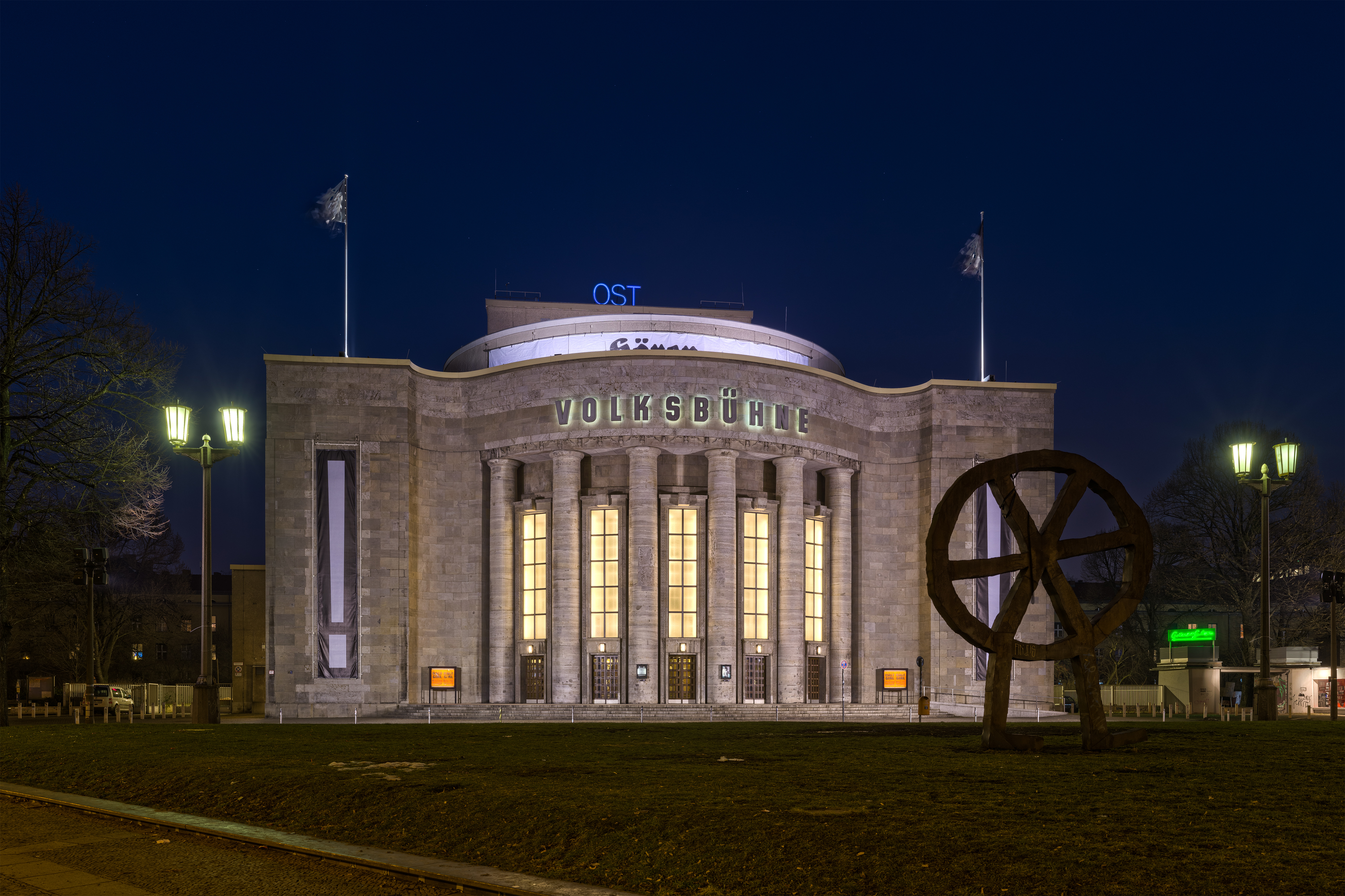 Volksbühne theater at Rosa-Luxemburg-Platz in Berlin at night. The theater was built between 1913 and 1914 according to plans of the architect Oskar Kaufmann.